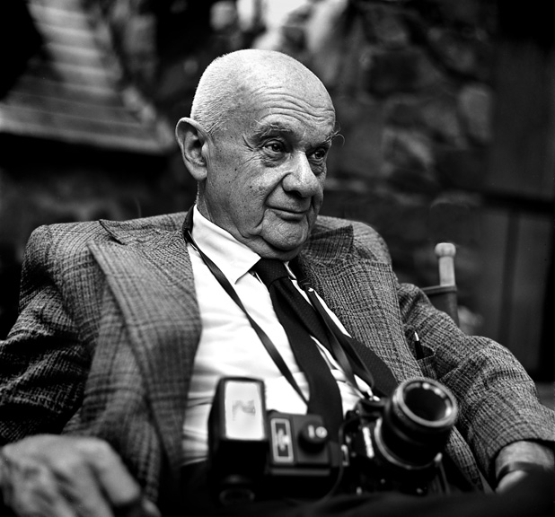 Roman Vishniac, 1977 photo by Andrew A. Skolnick